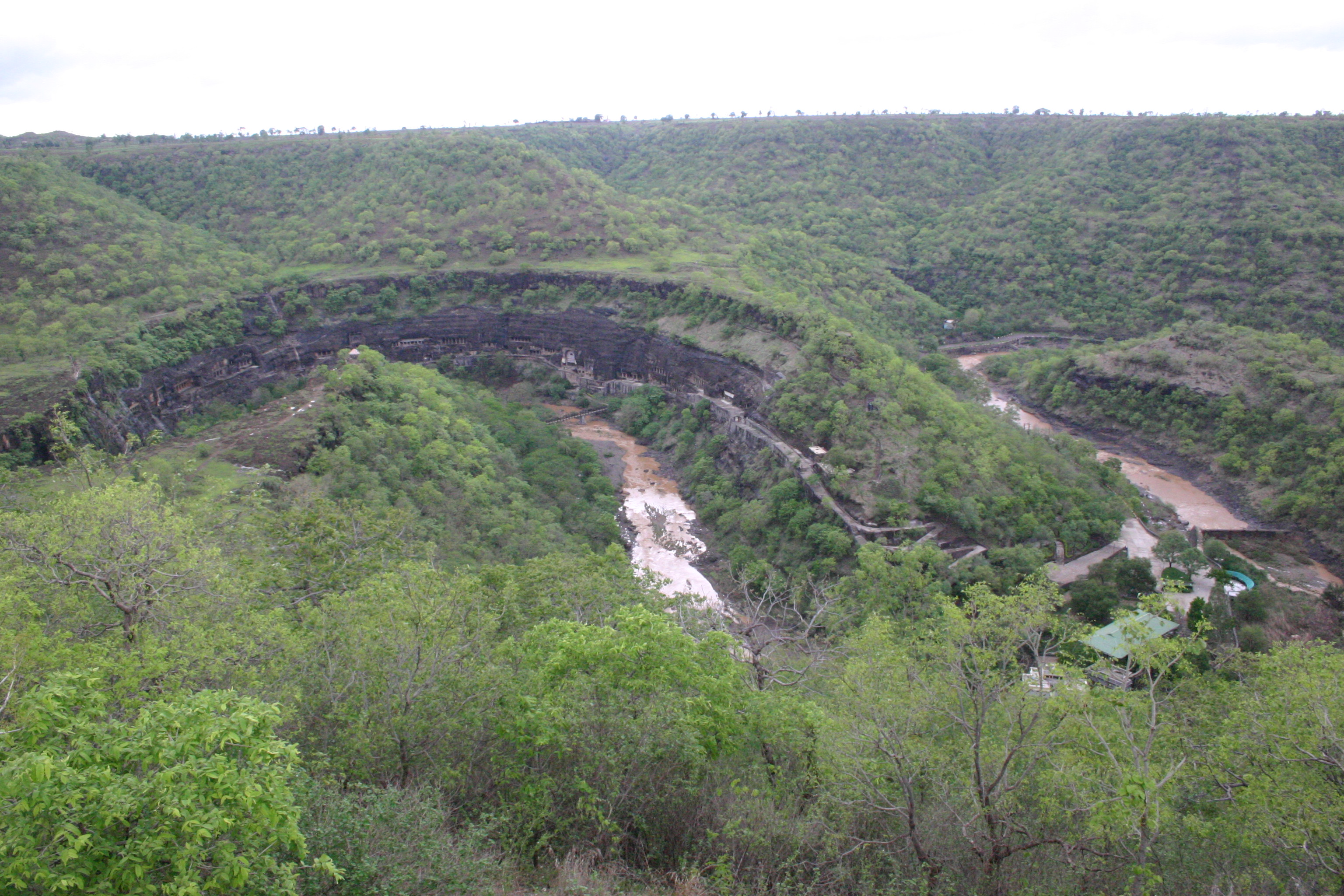 Ajanta Caves